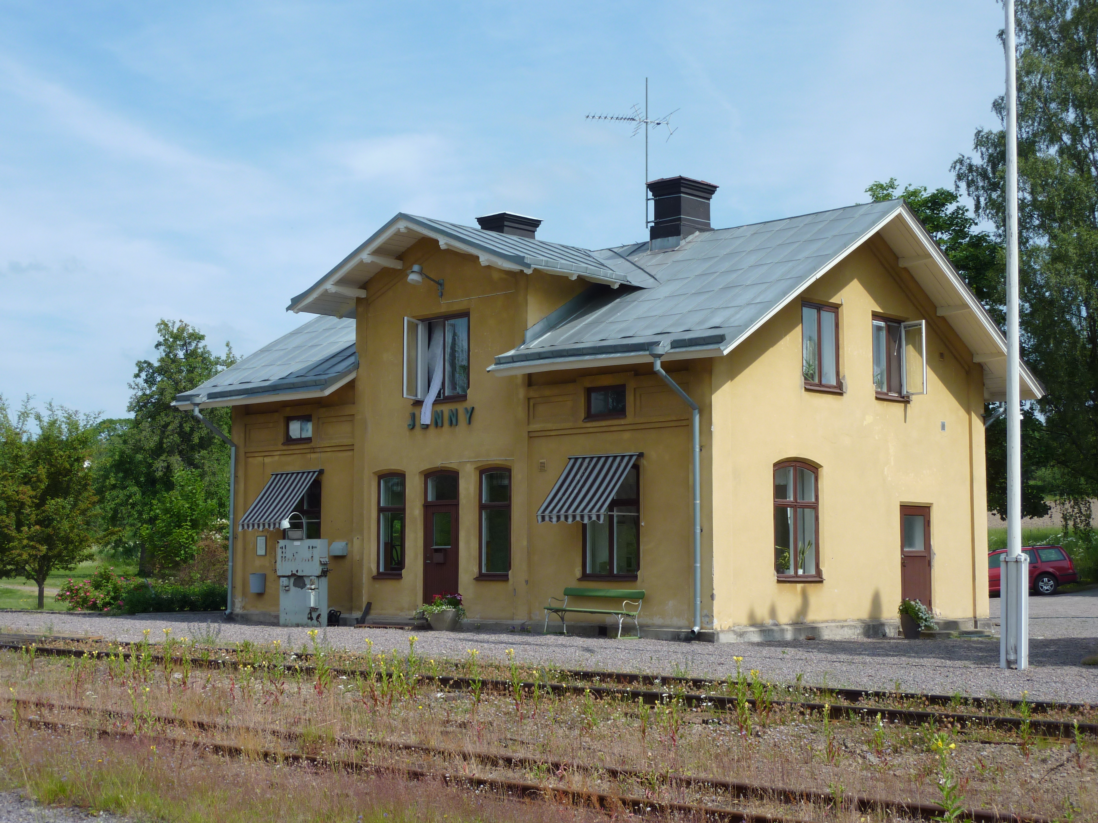 Railway station Jenny in Sweden